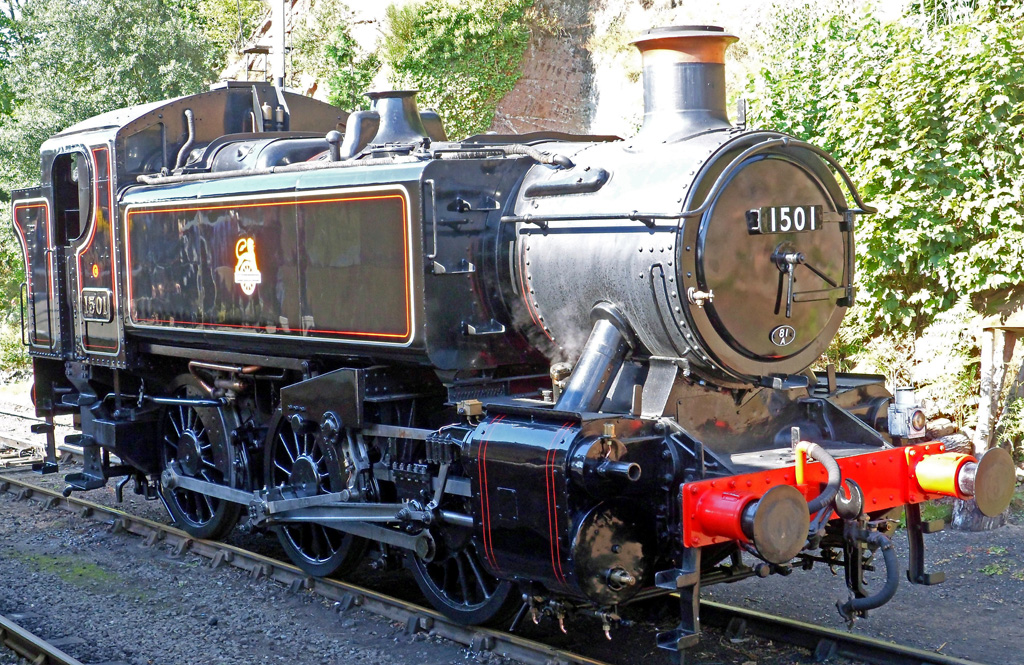 GWR 15XX class 0-6-0PT 1501 painted in early BR bl;ack at the Severn Valley Railway in 2012